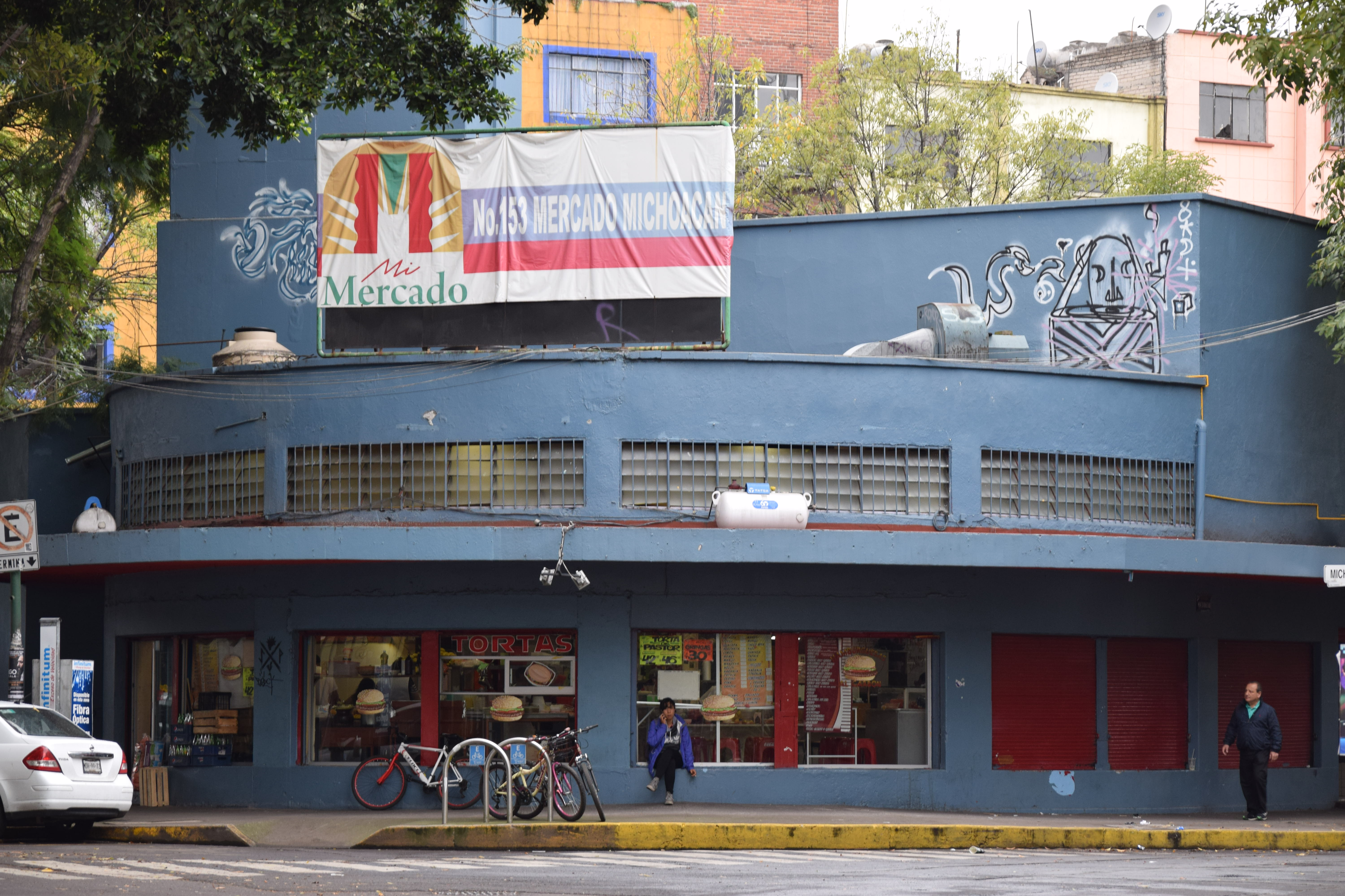 Facade of Mercado Michoacan (Michoacan Market), located at Colonia Condesa, Mexico City.